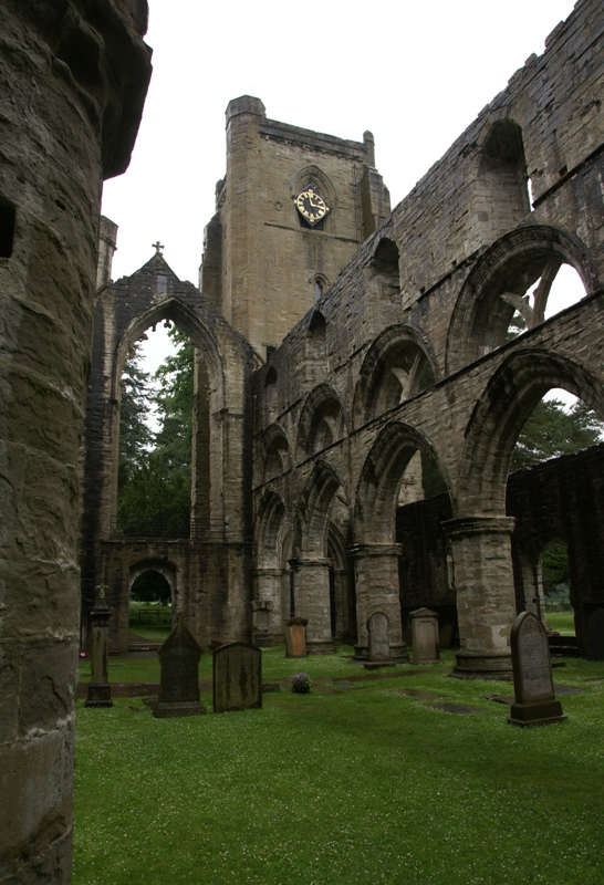 Dunkeld Cathedral, Dunkeld, Perth and Kinross, Scotland - nave interior from the east